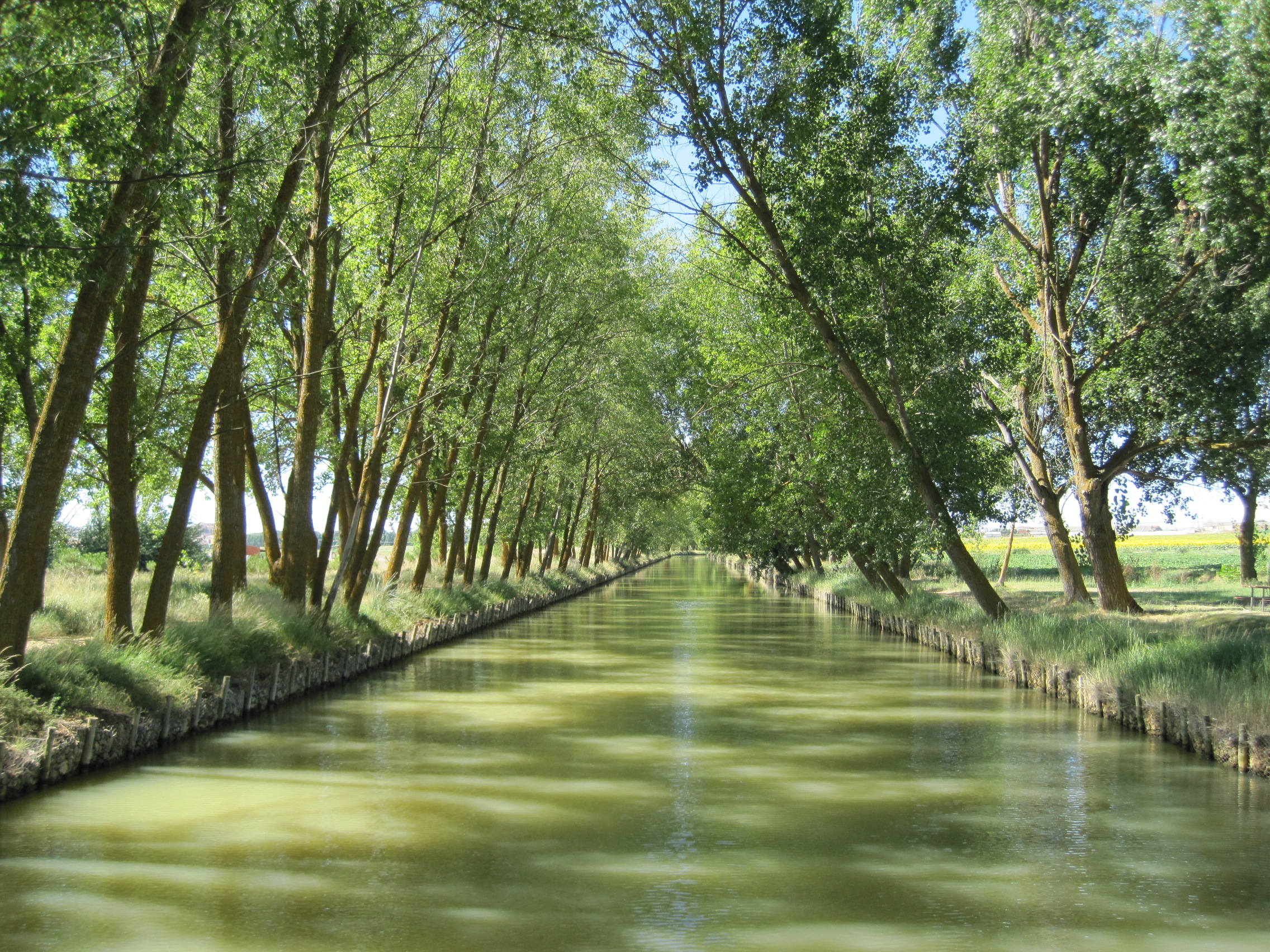 Vista del Canal de Castilla junto a Medina de Rioseco (Valladolid, España).